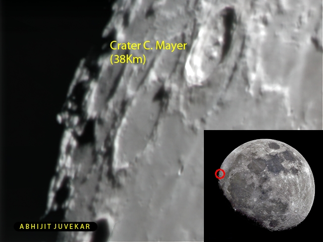 The location of Crater C. Mayer highlighted by red circle on the inset moon image. The Best view of this crater can be seen on 90% Waxing Gibbous Moon phase.